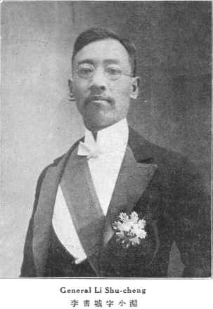 Li Shucheng, Xiaoyuan (1882 - 1965)